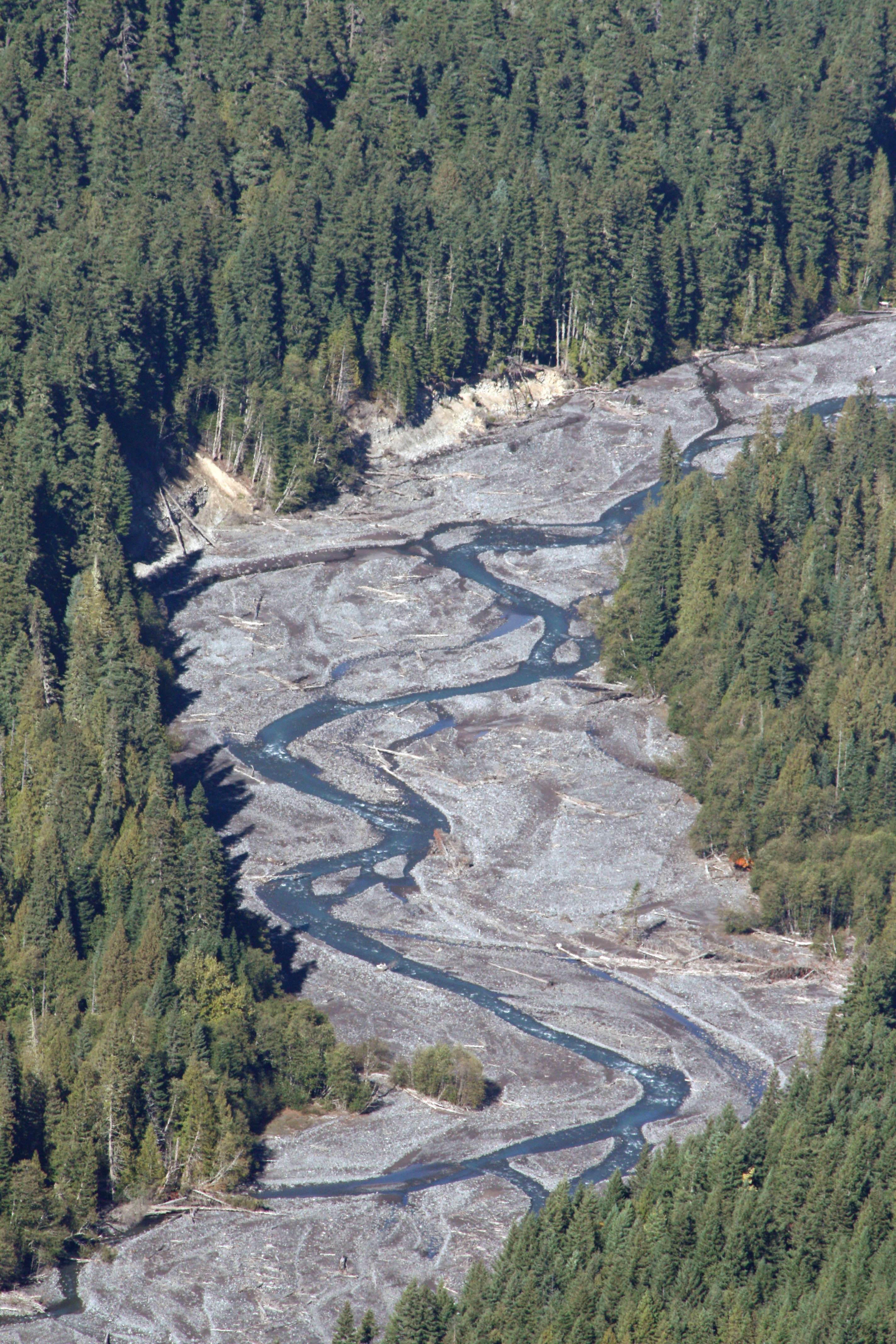 White River exhibits braided river and meander behavior with coarse woody debris deposited on extensive gravel bars. Populus trichocarpa, with its brilliant yellow fall foliage, delineates watercourses in the Abies amabilis forest.